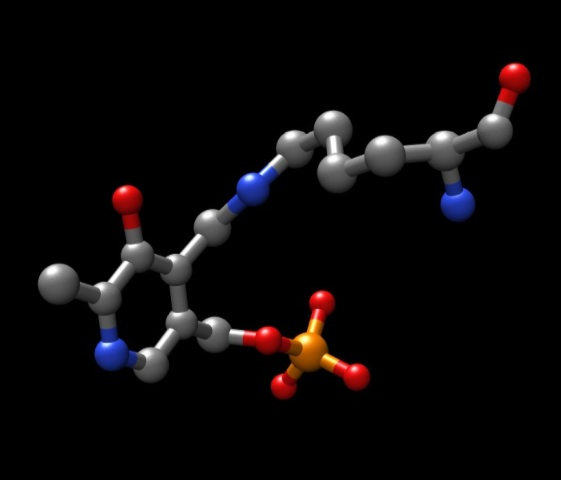 Lysine280 linked to PLP